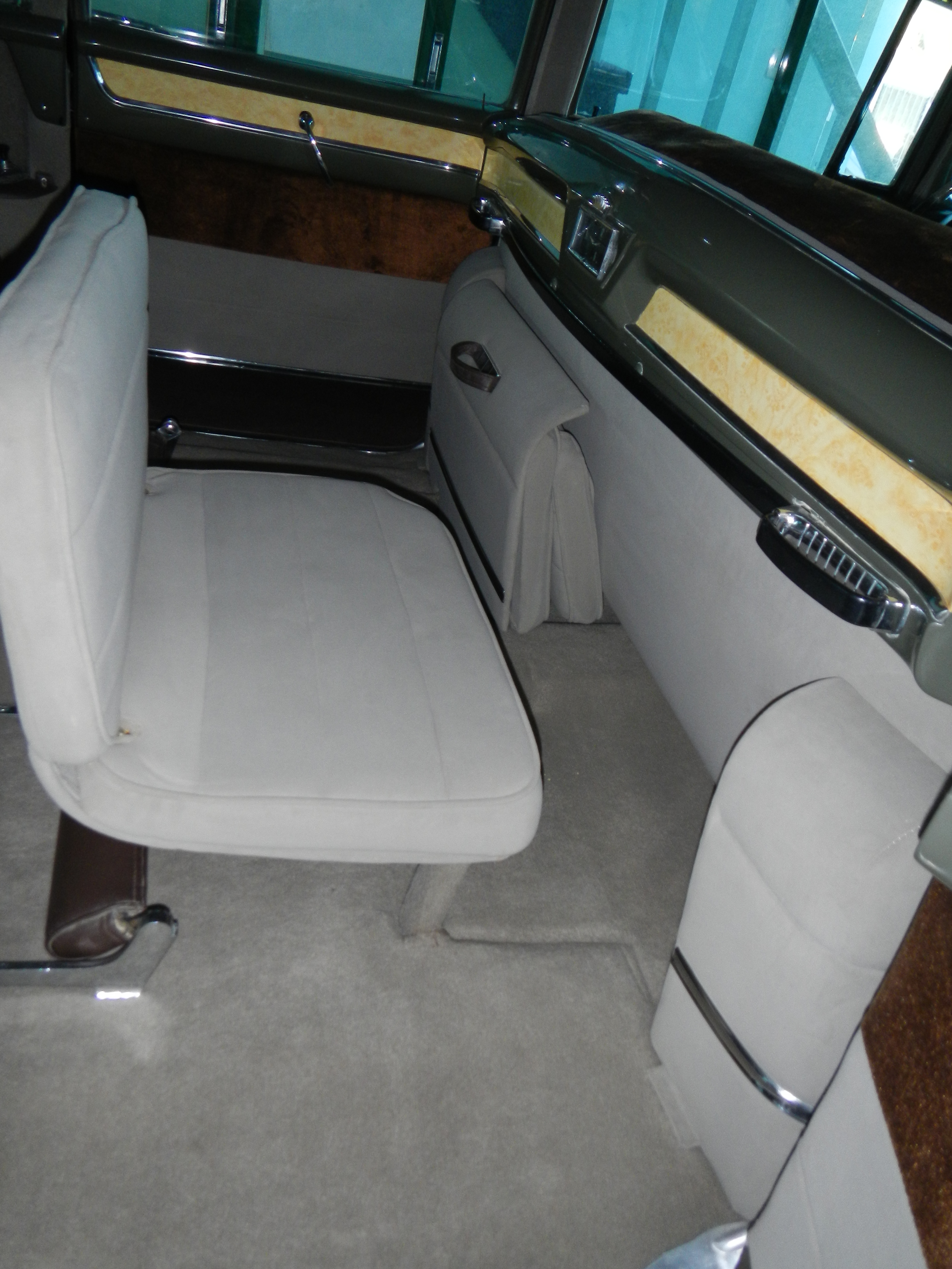 President Ramon Magsaysay Ancestral House, located at Castillejos, Zambales is the ancestral of the seventh Philippine President Ramon Magsaysay. It is open for public viewing. With traces of the past, the Magsaysay residence is was the former leader of the Philippines grew up. This structure houses some of the personal belongings of the late president, from his furniture, appliances, clothing, medallions, and books, to his 1945 Cadillac limousine, and a Willy’s Jeep said to be in good running condition. [1][2][3]Location: Castillejos, Zambales (Region III) Category: Building Type: House, NHCP Museum Status: National Historical Landmark[4][5] Castillejos, Zambales[6] Ramon Magsaysay[7]